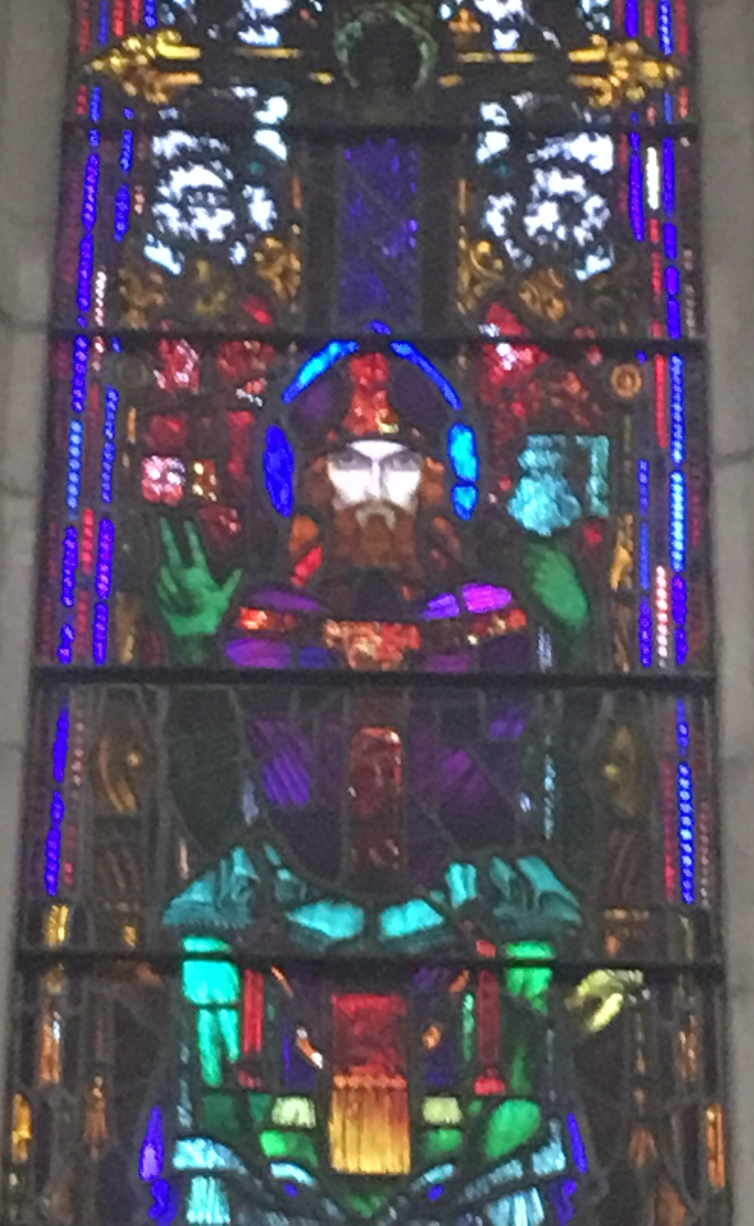 Harry Clarke, "St Albert of Cashel" (1916)